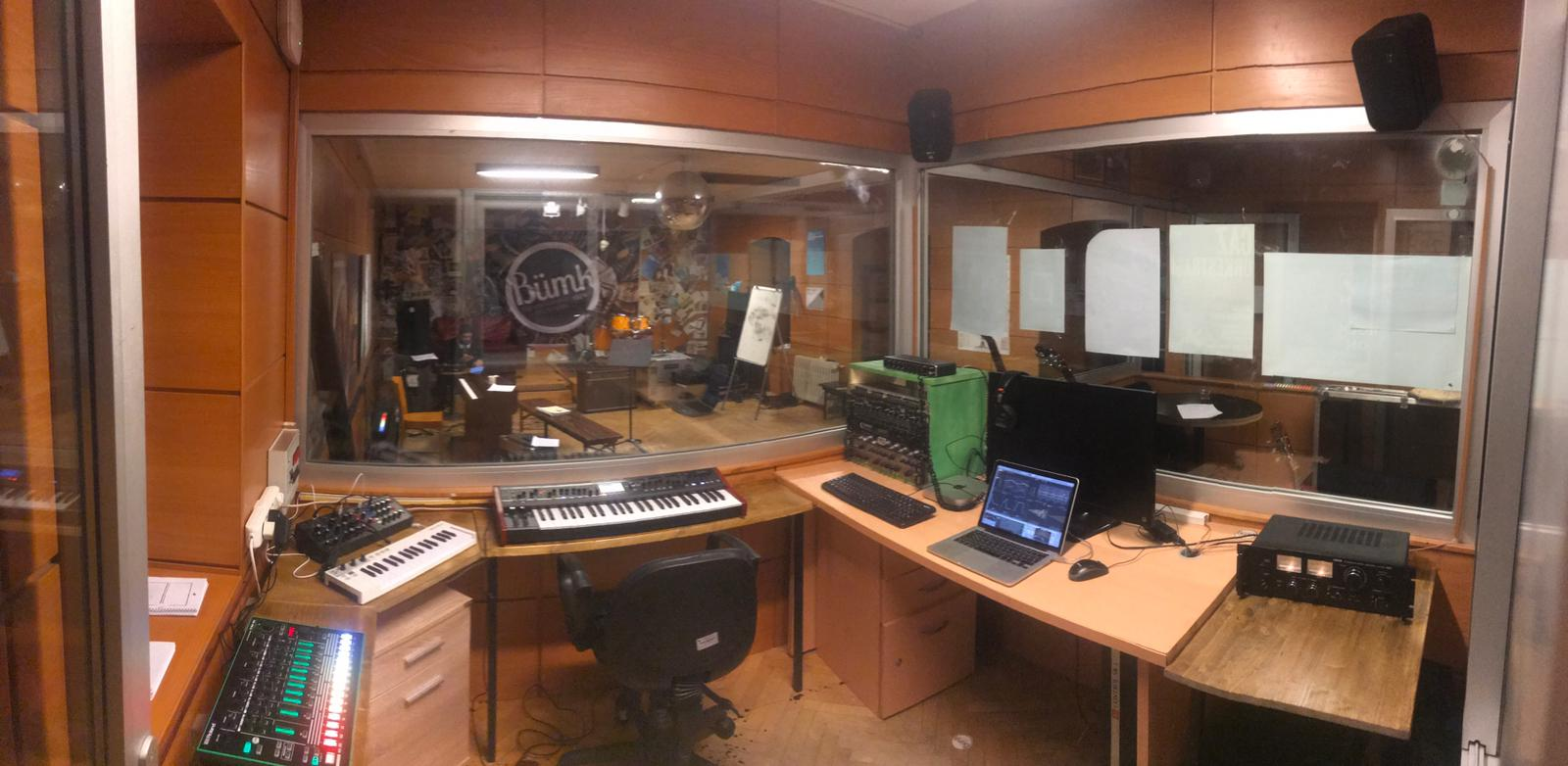 Electronic Music Studio